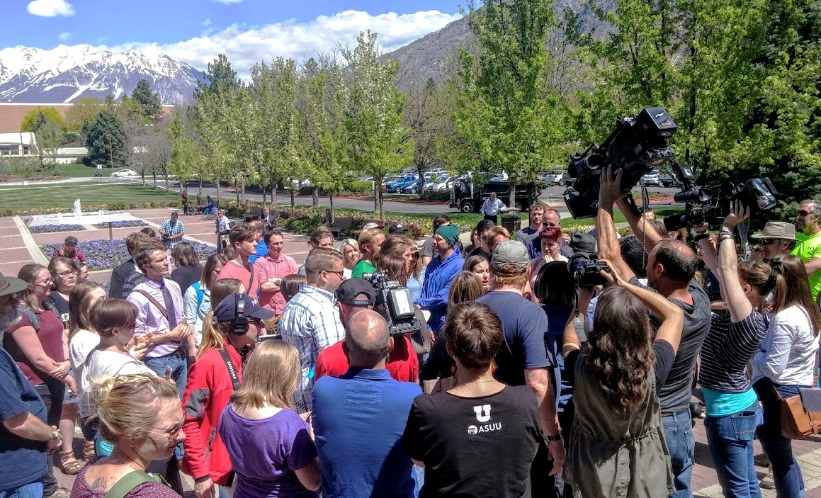 Dozens of protesters gathered to deliver a 60,000 petition signatures to BYU's administration on April 20, 2016 in protest of the school's investigation and subsequent punishment of rape survivors who had reported their experiences. The petition asked the school to add an immunity clause shielding these sexual assault survivors from any Honor Code investigations that could arise from the assault reporting.